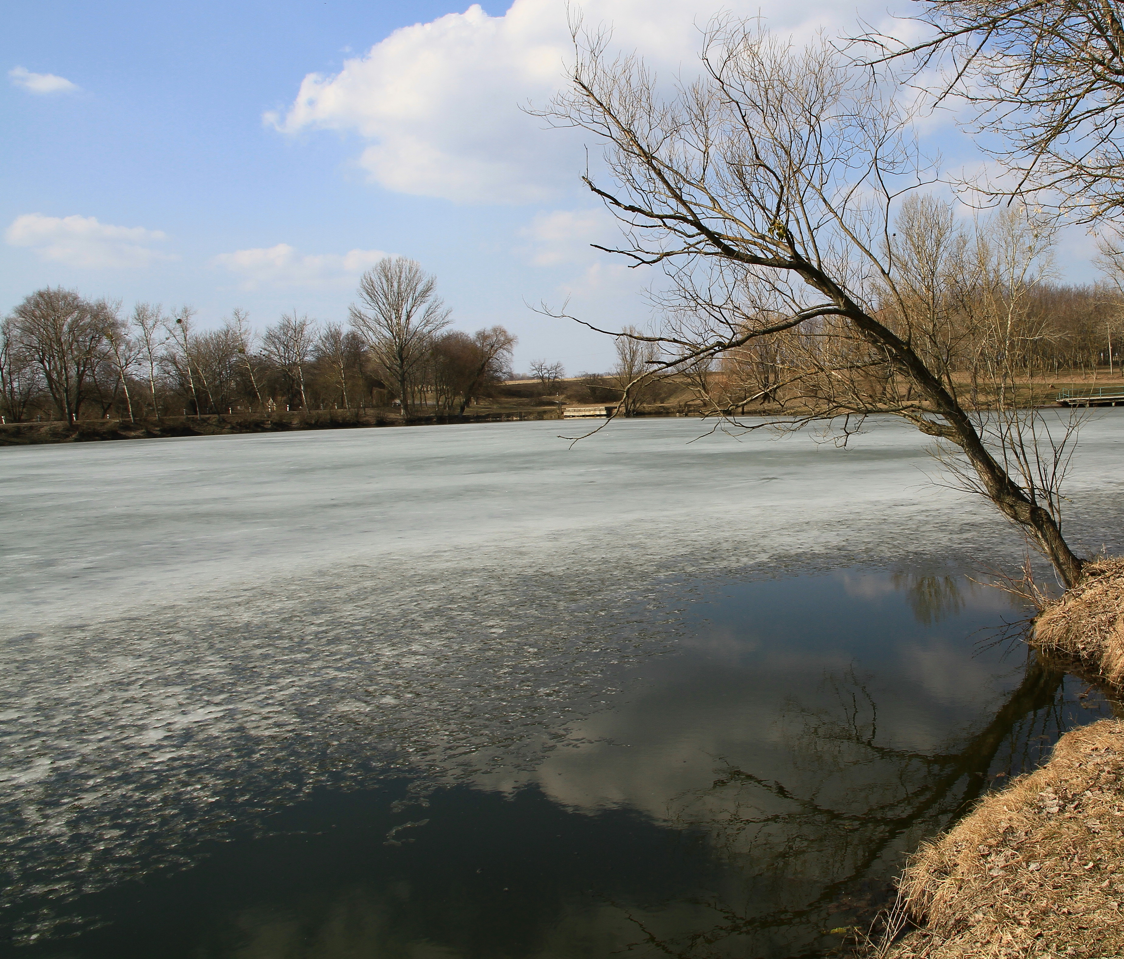 Pond in Hoholeve, Shyshaky Raion, Poltava Oblast, Ukraine